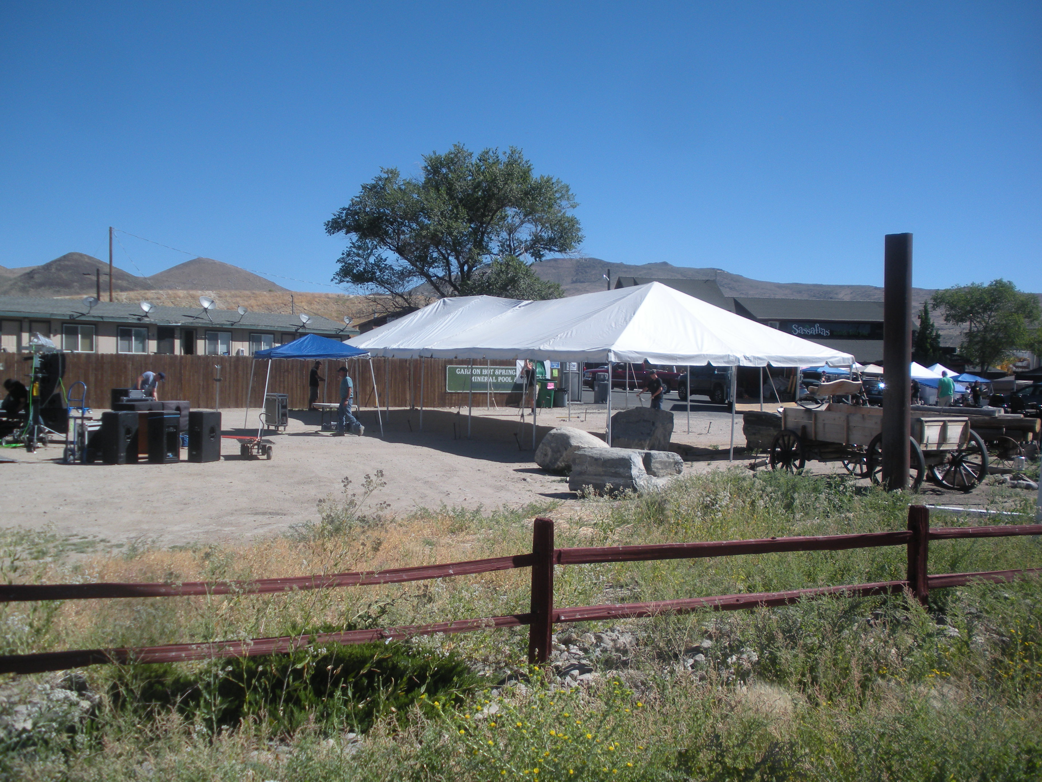 This is the resort at Carson Hot Springs. Originally posted to my Flickr